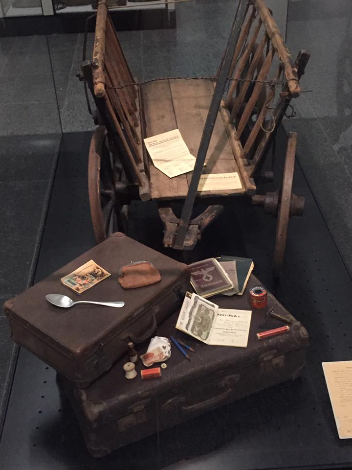 Push-cart used by German refugees after WWII. Deutsches Historisches Museum, Berlin